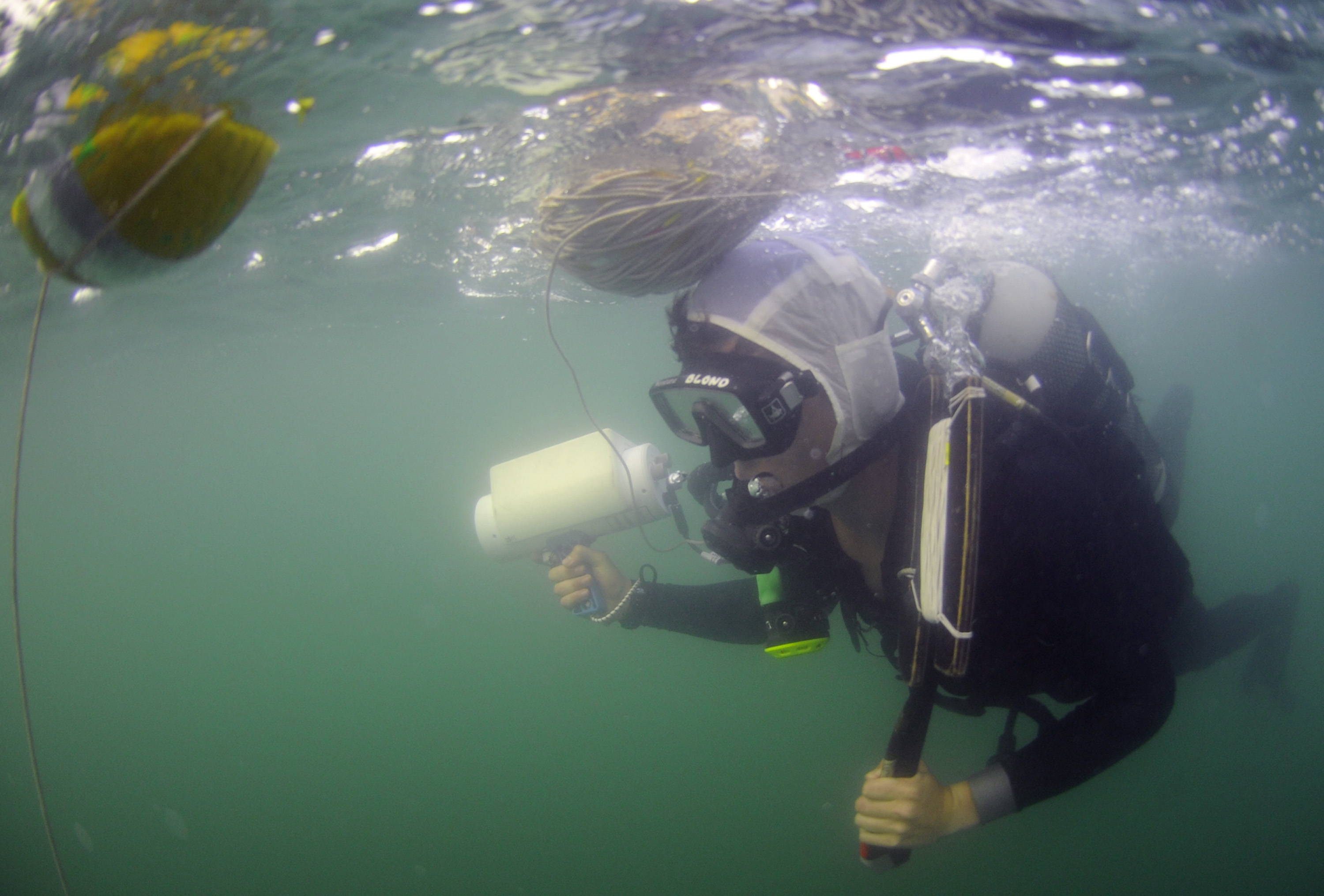 PEARL HARBOR (July 19, 2012) Able Seaman Dominic Blond, assigned to the Royal Australian Navy Clearance Diving Team, performs an underwater search with a handheld sonar during the humanitarian assistance and disaster relief scenario portion of the Rim of the Pacific (RIMPAC) 2012 exercise. Twenty-two nations, more than 40 ships and submarines, more than 200 aircraft and 25,000 personnel are participating in the RIMPAC exercise from June 29 to Aug. 3, in and around the Hawaiian Islands. The world's largest international maritime exercise, RIMPAC provides a unique training opportunity that helps participants foster and sustain the cooperative relationships that are critical to ensuring the safety of sea lanes and security on the world's oceans. RIMPAC 2012 is the 23rd exercise in the series that began in 1971. (U.S. Navy photo by Mass Communication Specialist 3rd Class Jumar T. Balacy/Released) 120719-N-GG400-028